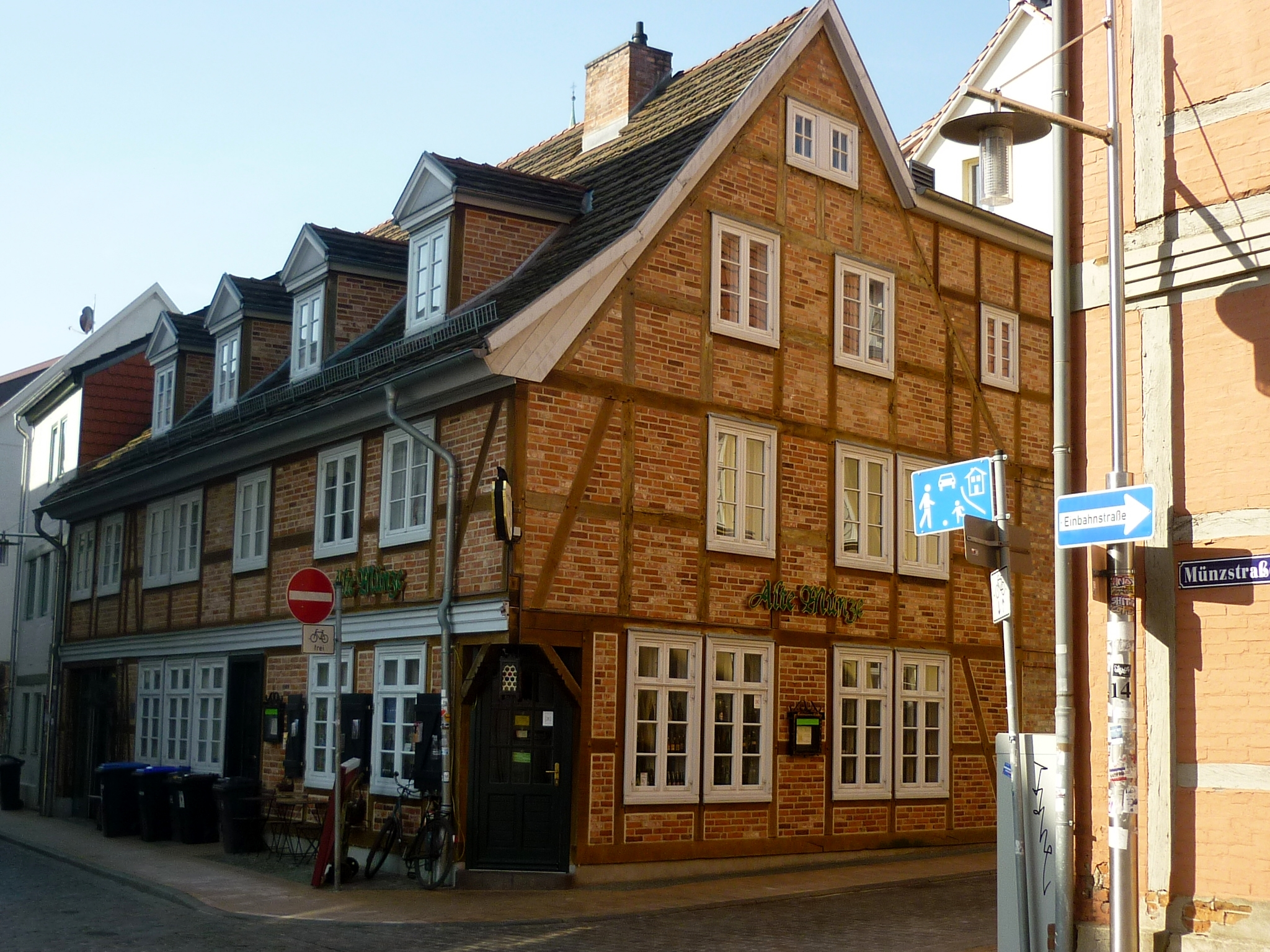 Half-timber in the Schelfstadt, Schwerin